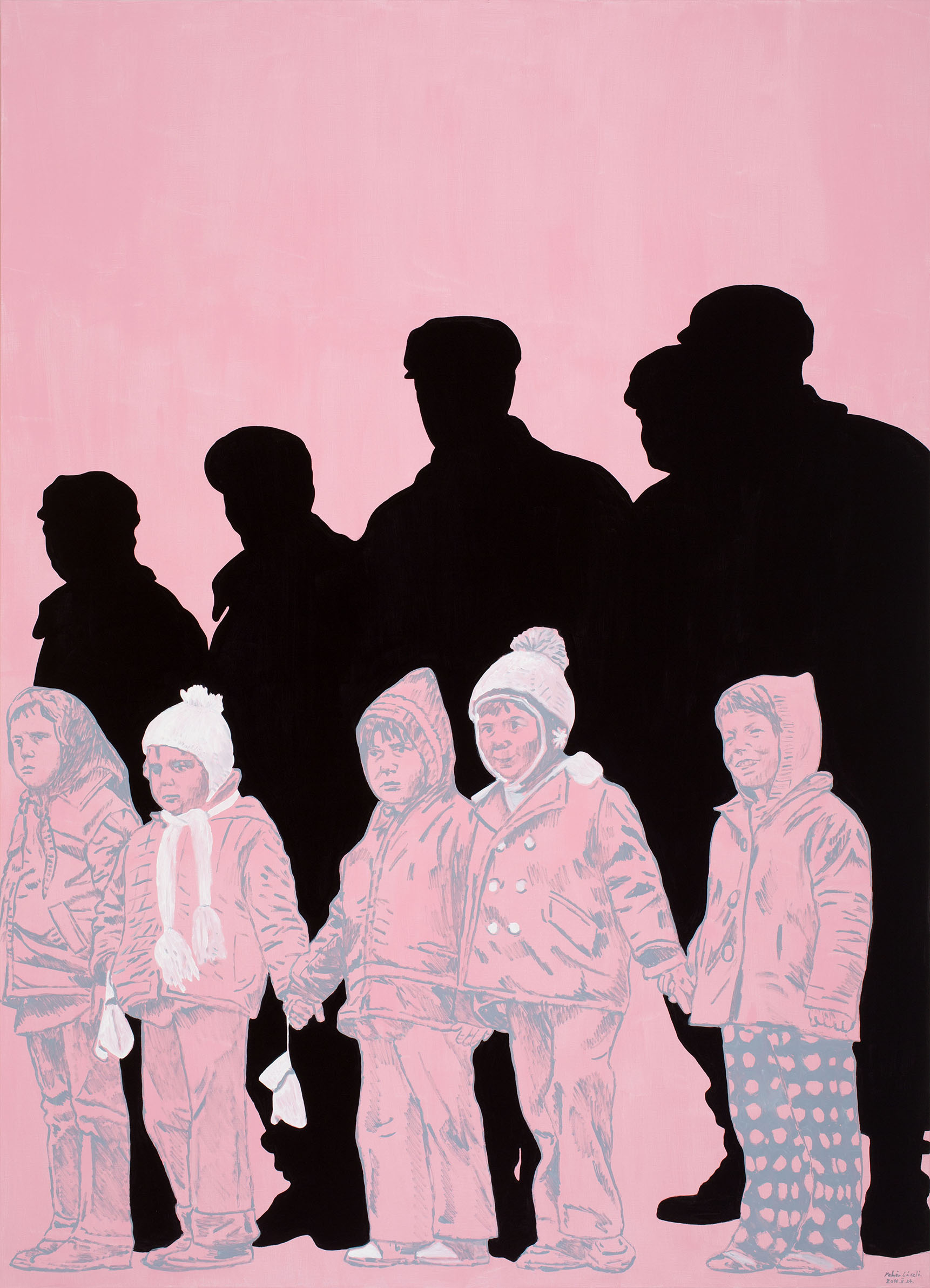 László Fehér, Generations, 2016, oil and acrylic on canvas, 250 x 180 cm